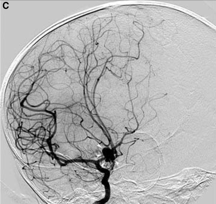 DSA (AP/oblique) from right ICA injections confirms aneurysm of the distal A1 ACA segment in the patient with Takayasu arteritis